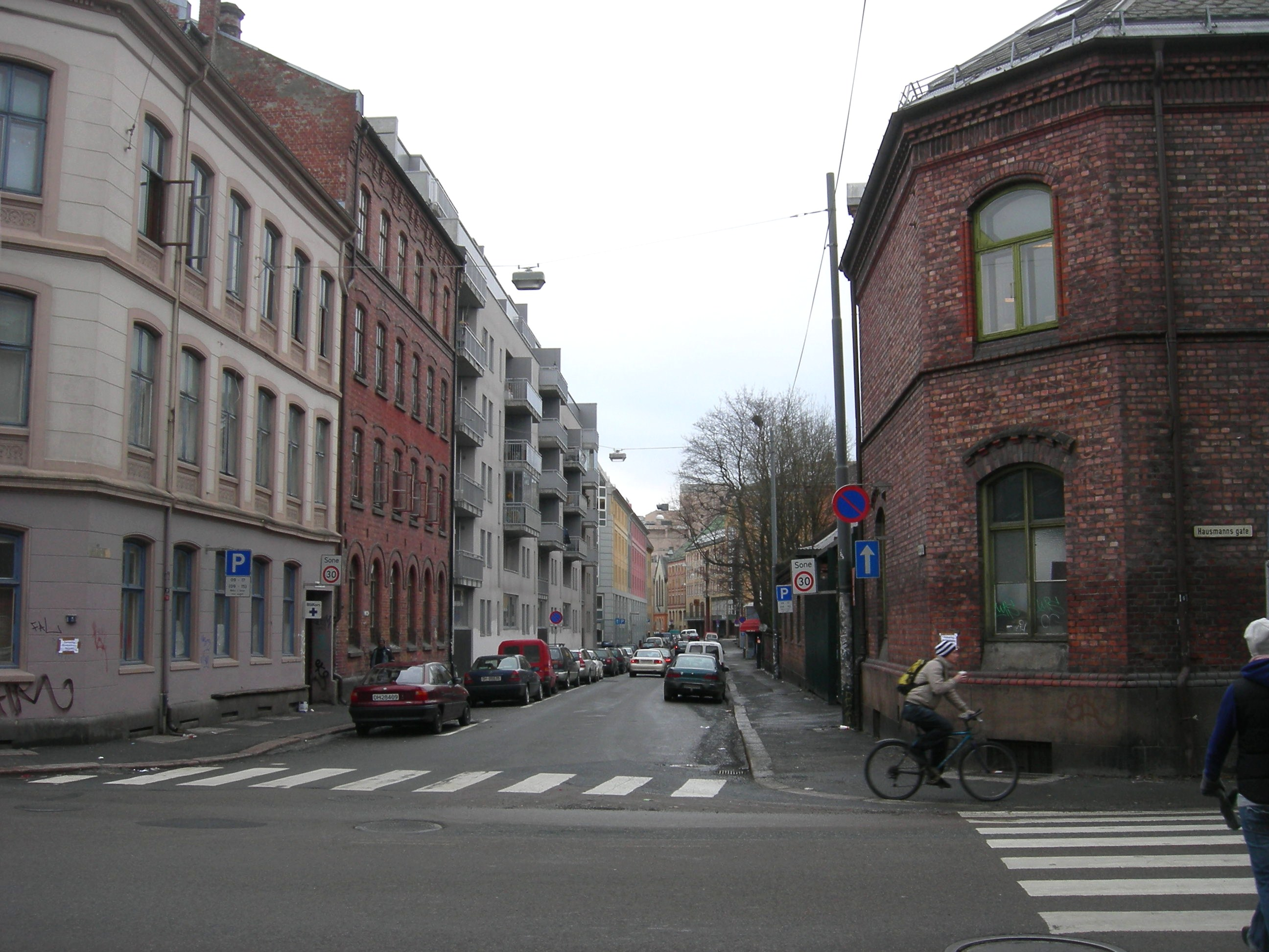 Mariboes gate, seen from Hausmanns gate, Hausmannskvartalene neighborhood, Oslo